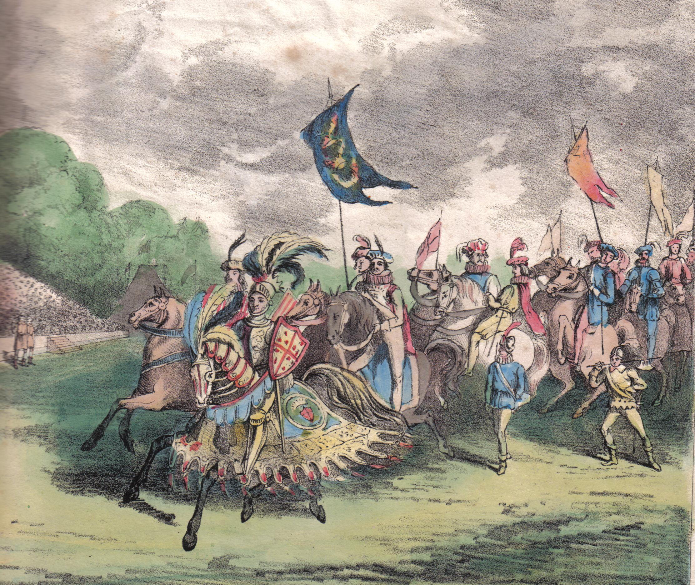 The 1839 Eglinton Tournament procession passing the Queen's Gallery.